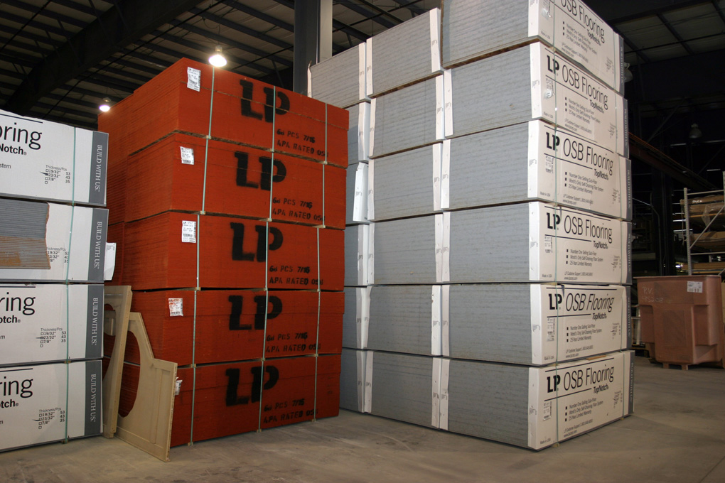 Bulk materials stored indoors at a manufactured home factory